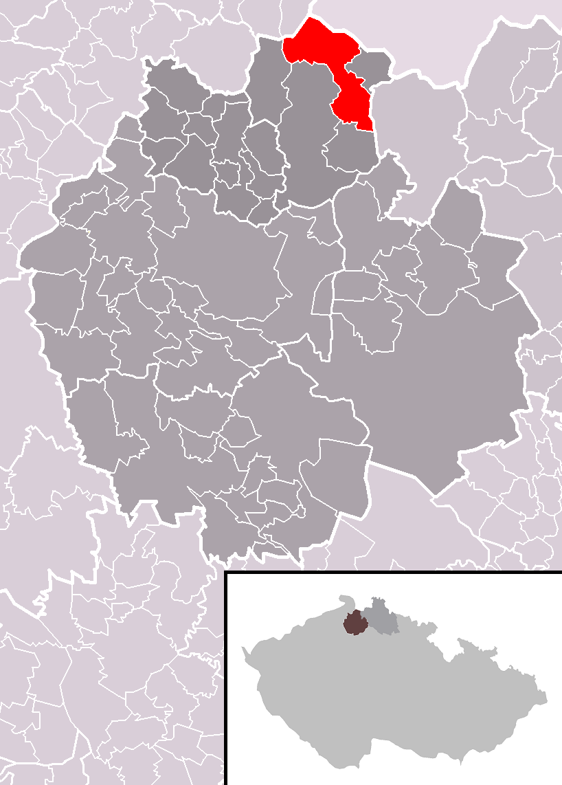 Location of Mařenice municipality within Česká Lípa District and administrative area of Nový Bor as a Municipality with Extended Competence.